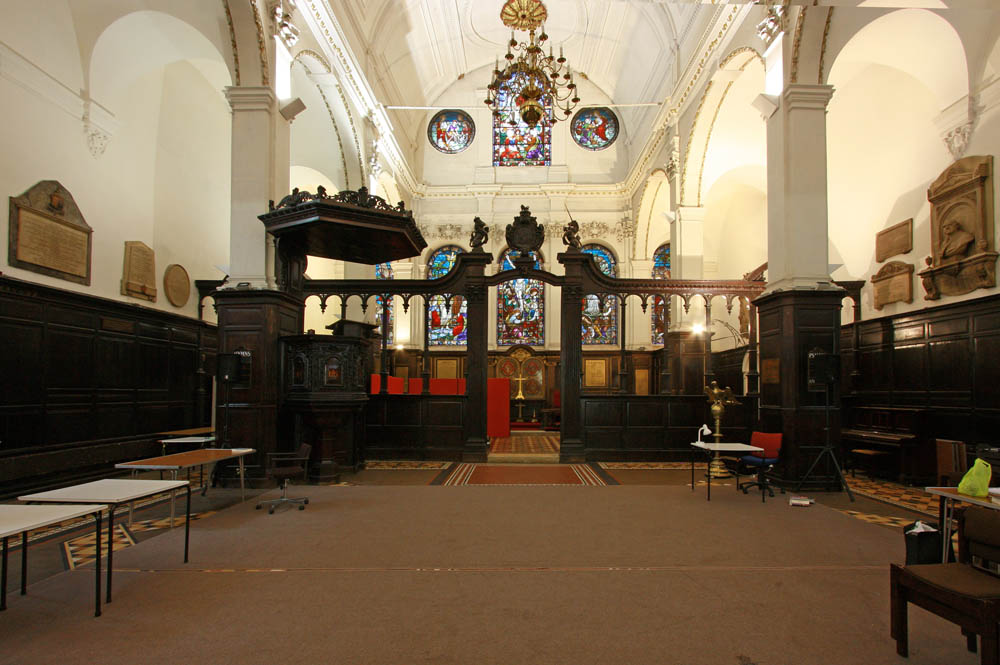 St Peter upon Cornhill, Cornhill, London EC3 - East end, near to London, City of London, Great Britain.